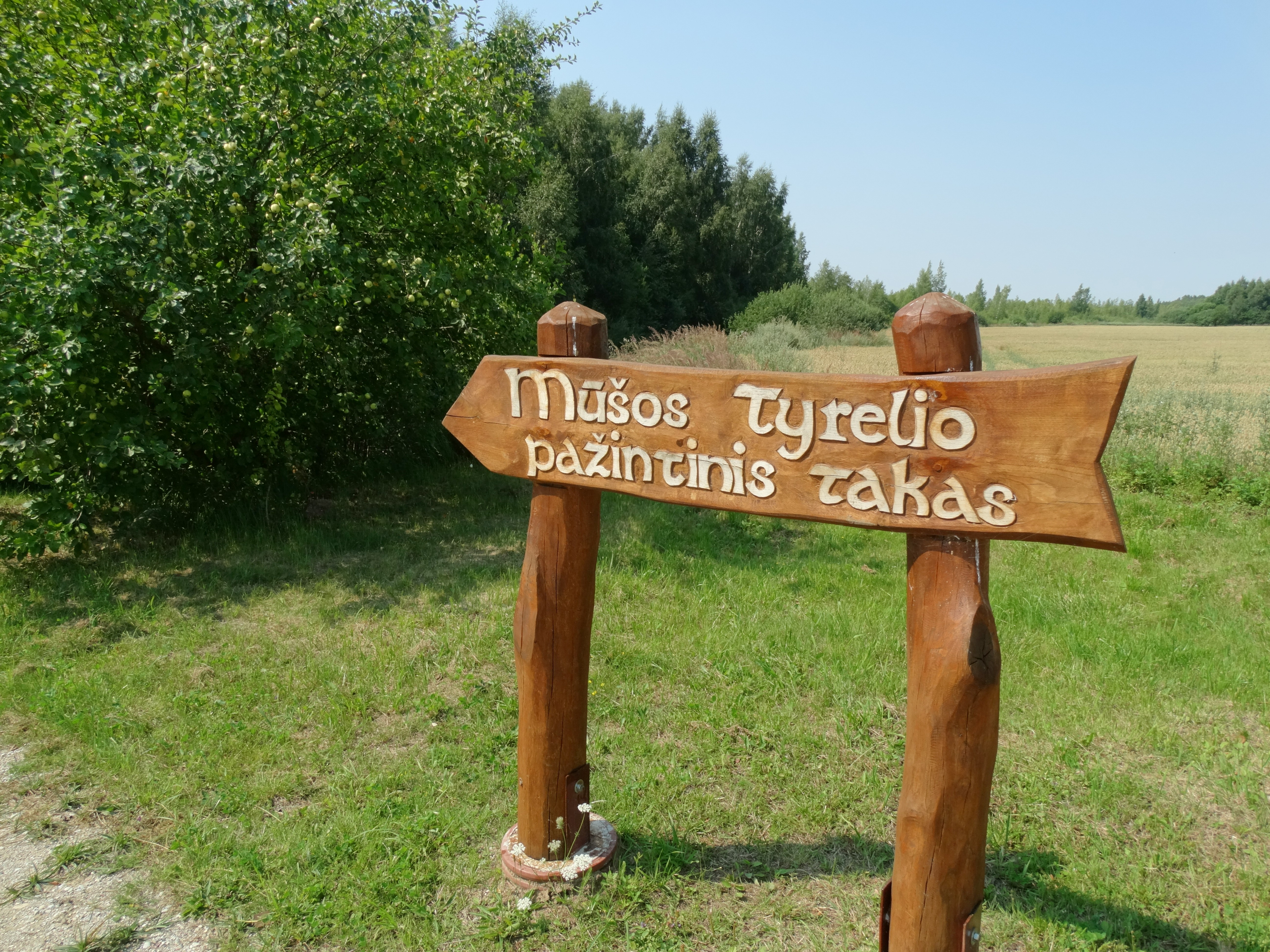 Swamp of Mūšos tyrelis, pointer to educational walkway, Joniškis district, Lithuania